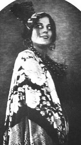 Carmen Tortola Valencia, from a 1918 publication. A woman with light skin and dark hair and eyes is standing, smiling, in a patterned shawl, wearing beads, hoop earrings, and a plumed headpiece.